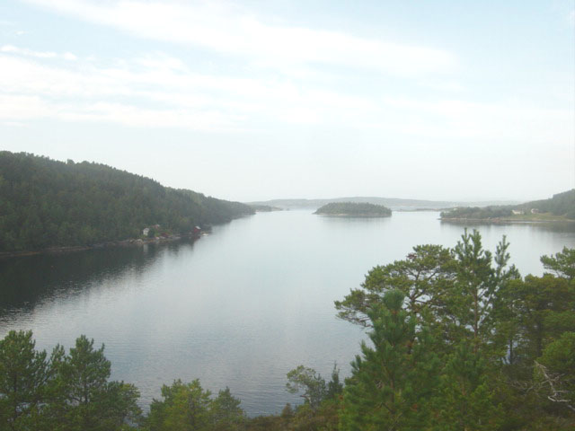 The outer part of Mjosundet and Grisvågøya (far in background) Norway